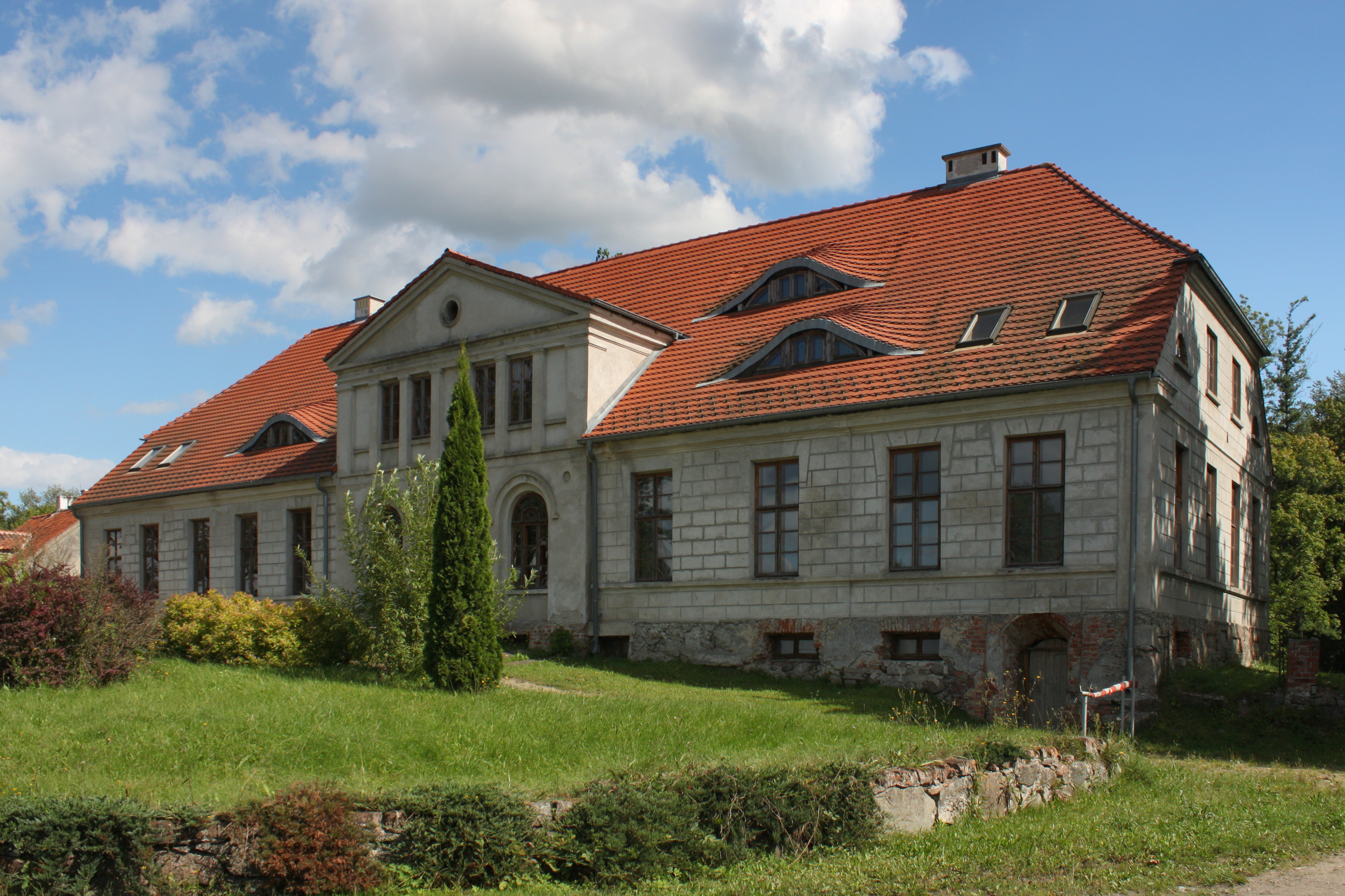 Manor in Baranowo.